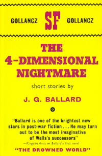 The front cover of the book The Four-Dimensional Nightmare